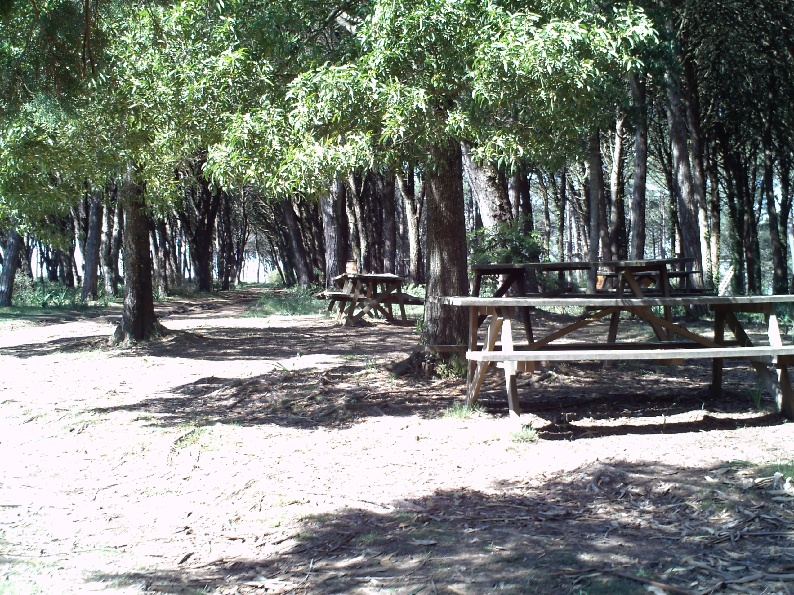 The mountain range of "Boa Viagem"(Good Travel)